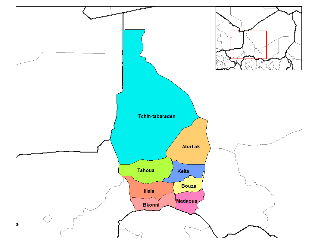 Summary Map of the Departments of Tahoua Region, following the changes in administrative naming 1999-2005, with the addition of Abalak Department: a new subdivision created from the Tchin-tabaraden Department. Derived from Map of the arrondissements of Tahoua department in Niger. Created by Rarelibra 18:37, 13 September 2006 (UTC) for public domain use, using MapInfo Professional v8.5 and various mapping resources. See: Tahoua (région) and Departments of Niger Image:Tahoua arrondissements.png Unicef Map FAO report FAO Map Tahoua (région) * Département de Abalak Superficie: 77 445 km² (1) Population: 80 777 hts Centre urbaine: Ville d'Abalak